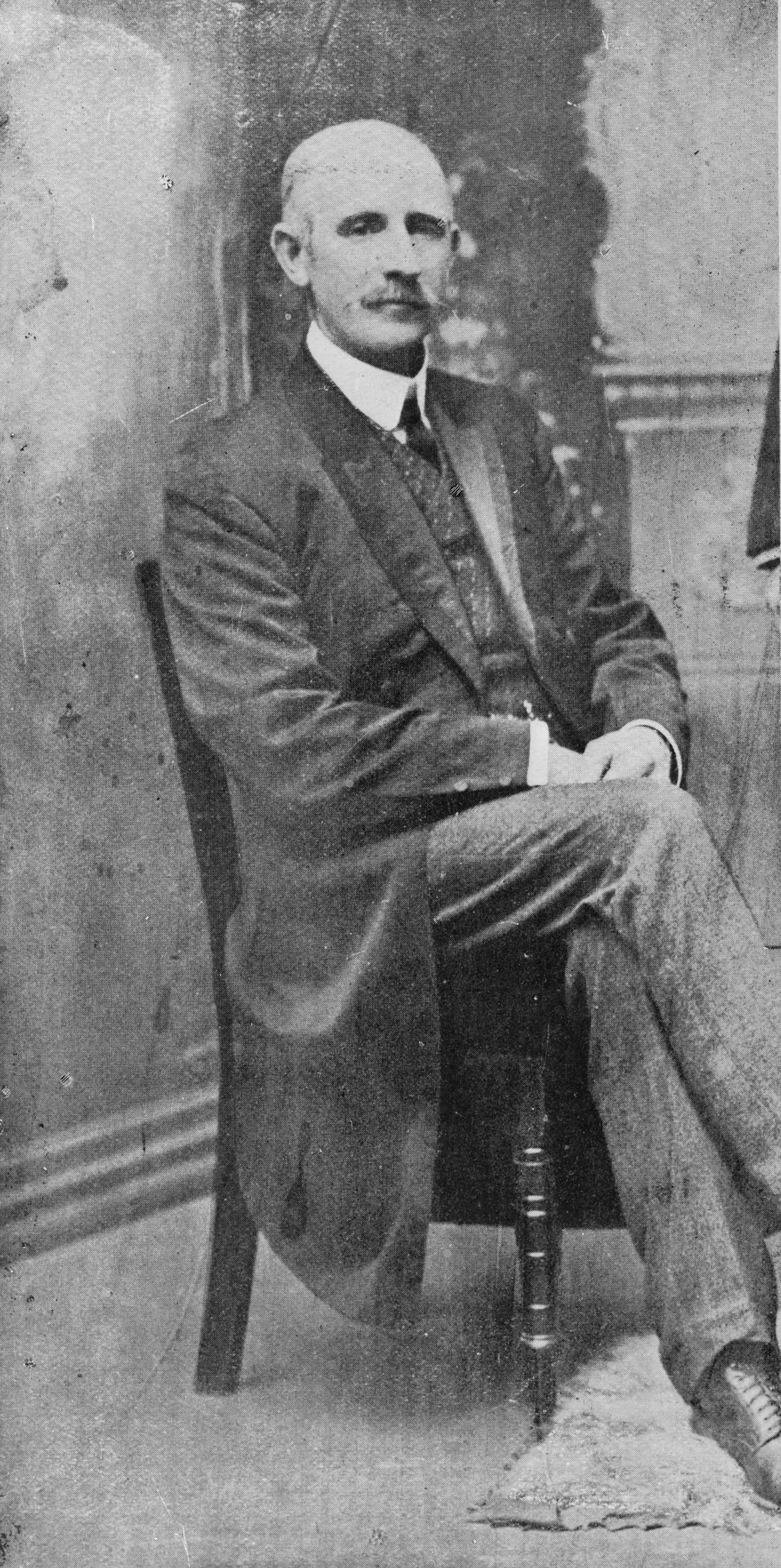 Shows the Hon John Edward Jenkinson Christchurch Legislative Council.